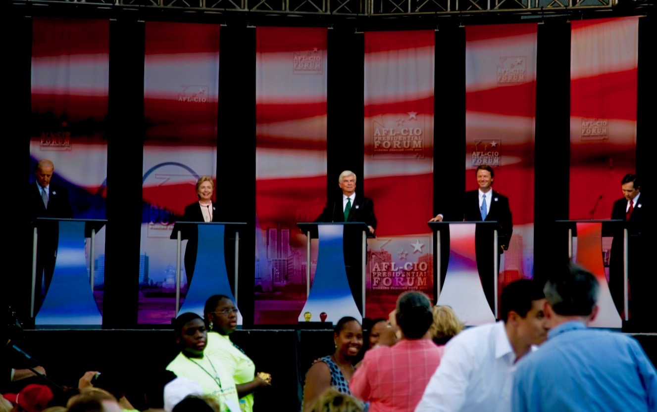 John Edwards participates in the AFL-CIO Presidential Candidates Forum at Soldier Field in Chicago, Illinois. Photo by Rachel Feierman.